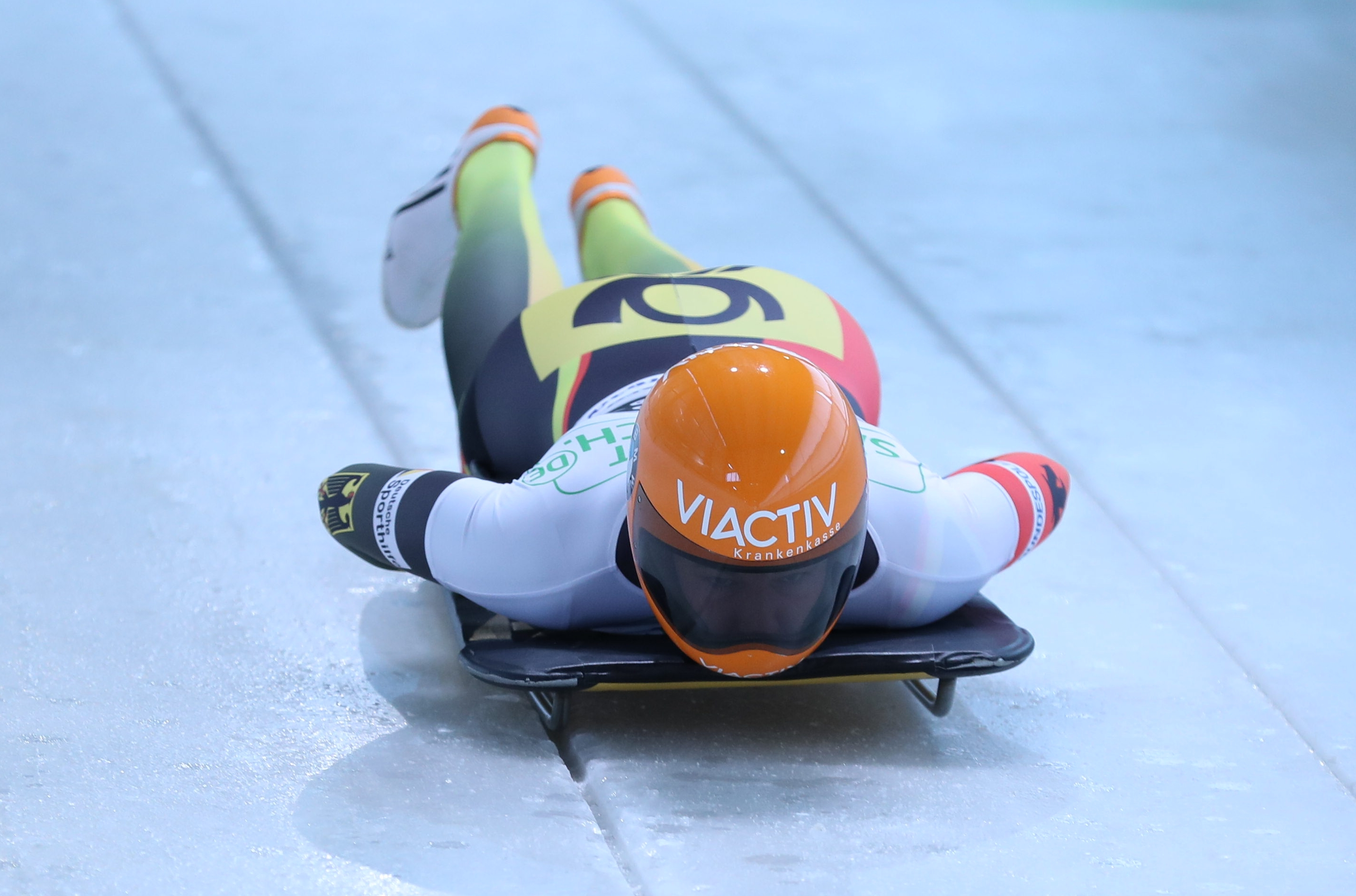 1st run at the Women's competition at the German Skelton Championships 2018/19 in Altenberg